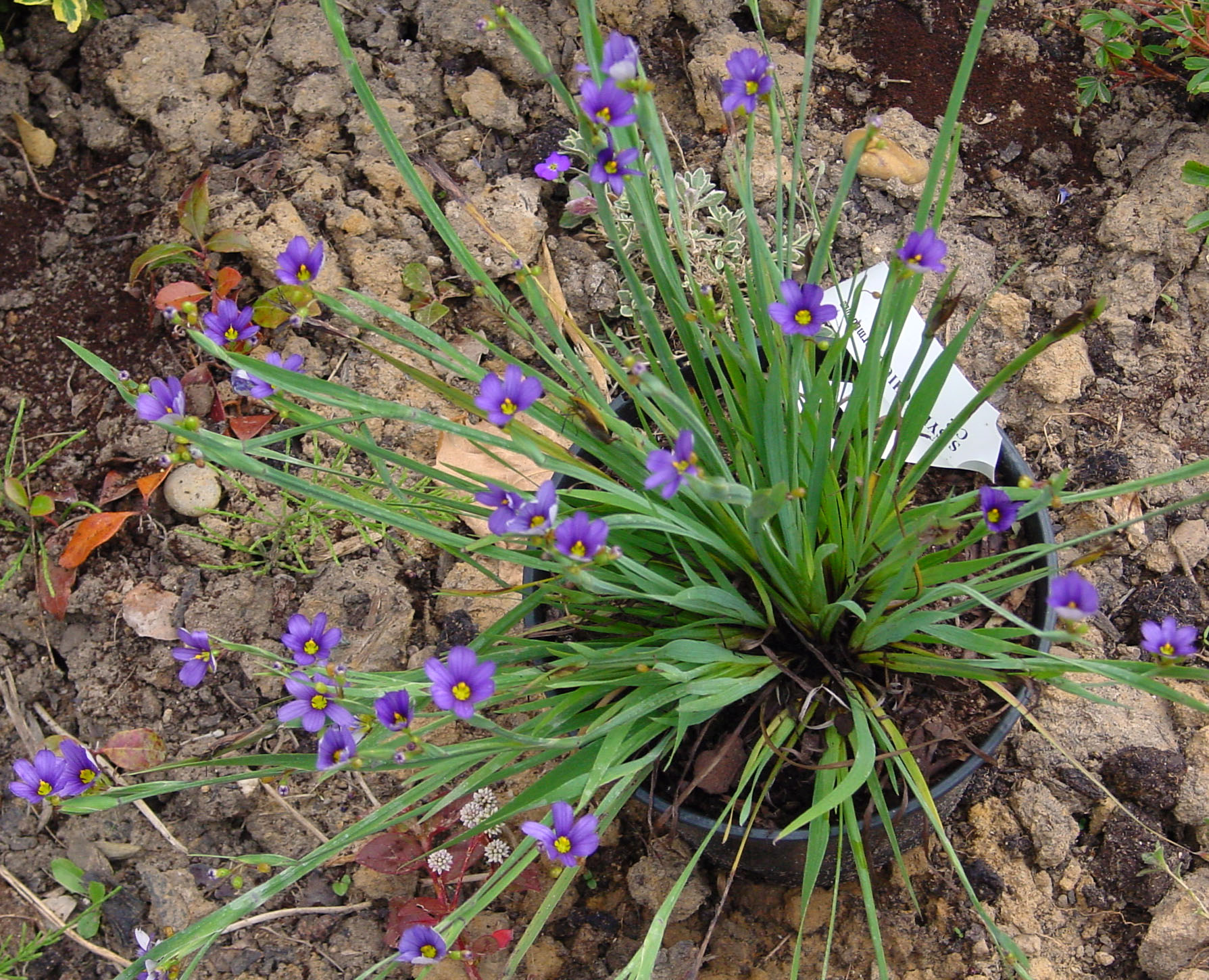 Bermuda Blue-eyed Grass